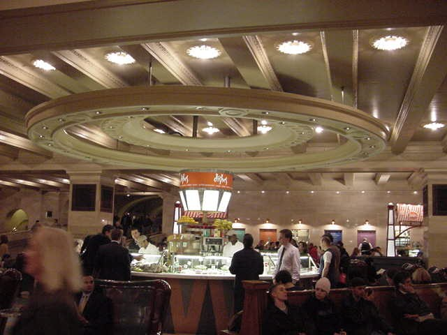 Grand Central Terminal NYC. Lower concourse - Food Court.